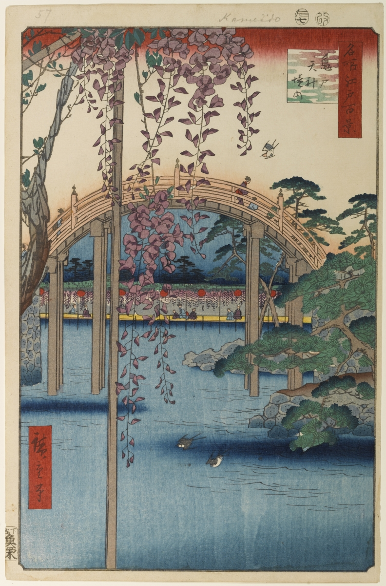 Part of the series One Hundred Famous Views of Edo, no. 065, part 2: Summer.